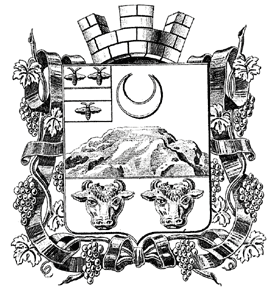 Coat of Arms of Osh, Russian Empire, 1908.